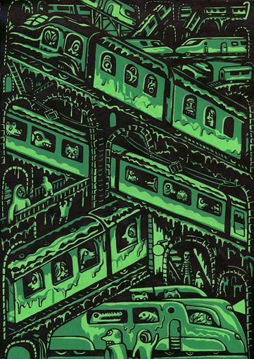 Representative of Marcus Nyblom's latest work, this painting/illustration is first published in the book "Skissbok" in 2007.